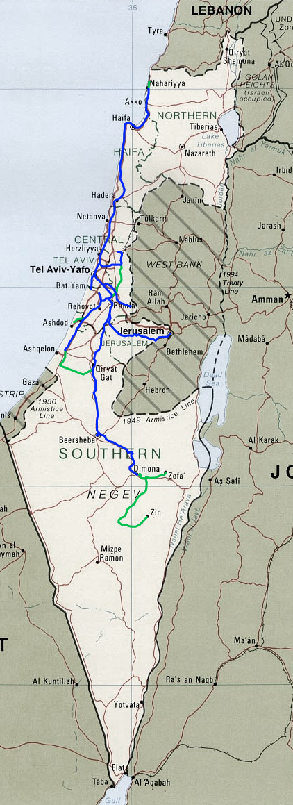 Map of existing Israeli railway lines. Idea based on File:Israelrailways.jpg . Blue: Passenger only or passenger and freight lines Green: Freight only lines